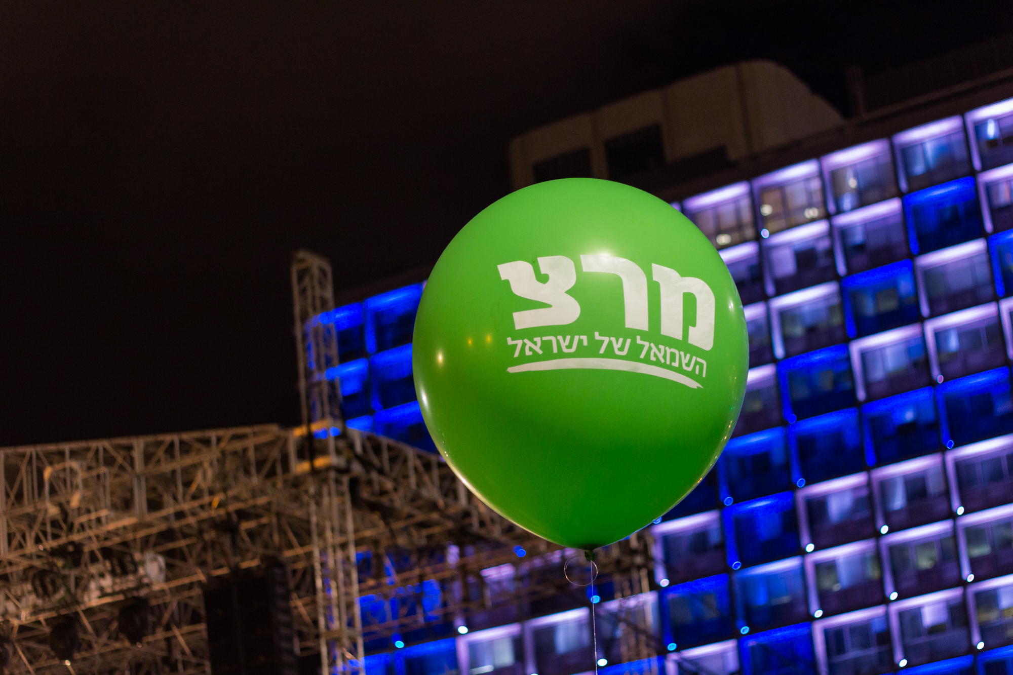 Meretz balloon at the Rabin memorial rally in Tel Aviv's Rabin Square, marking 19 years since his assassination.